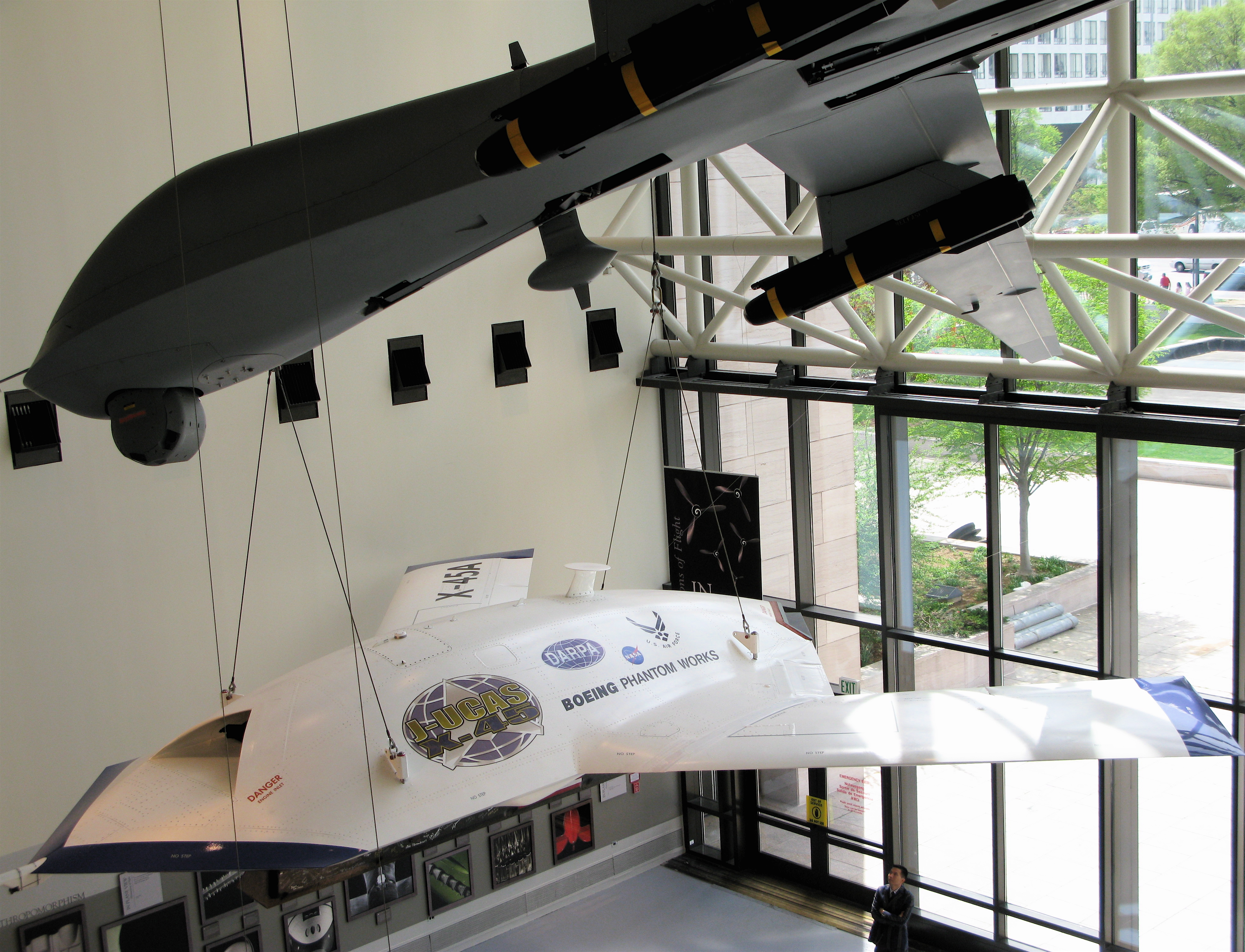 This X-45A [1] was the first modern Unmanned Combat Aerial Vehicle (UCAV) designed specifically for combat strike missions. It flew 64 flights and delivered bombs. I spoke with a Boeing Phantom Works programmer, and he said that it had flown missions in Iraq. It is “stealthy” but does not have a full stealth radar profile. One remote operator can control two of these birds simultaneously. Above the X-45 is a Predator.